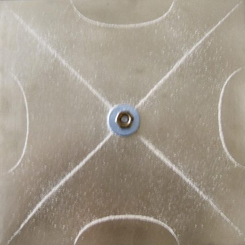 Photo of a Chladni pattern